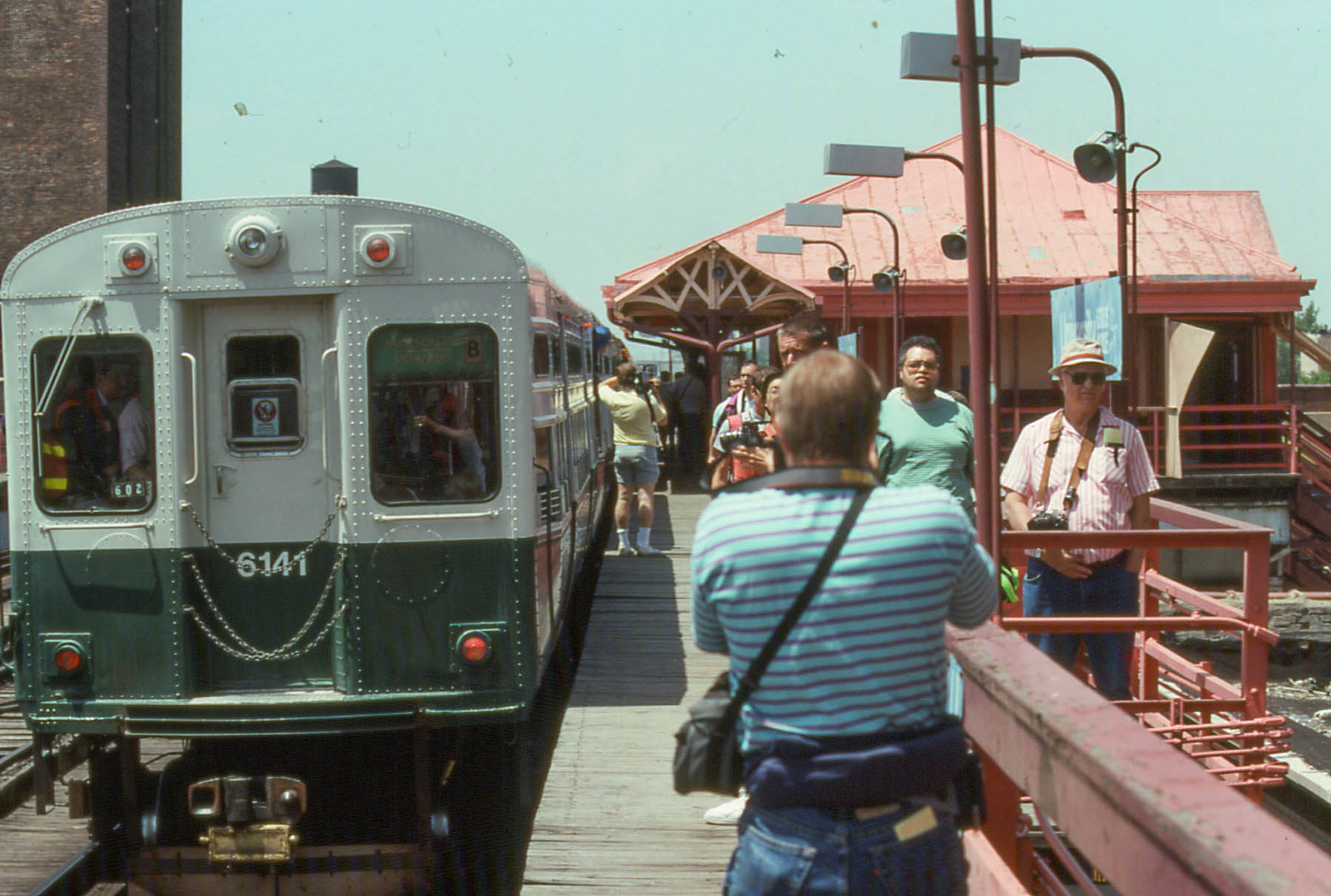 19920628 21 CTA South Side L 63rd & University